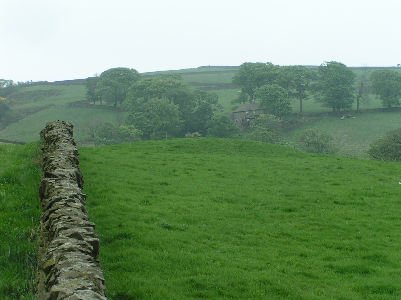 Bowl barrow, Ginclough Looking southwest from the footpath. for more information. The farm in the background is Slack-o'th'-Moor.